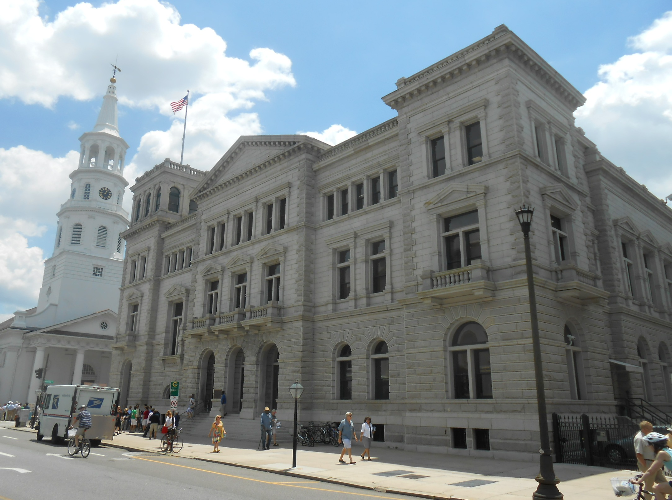 The U.S. Post Office and Courthouse in Charleston, South Carolina.